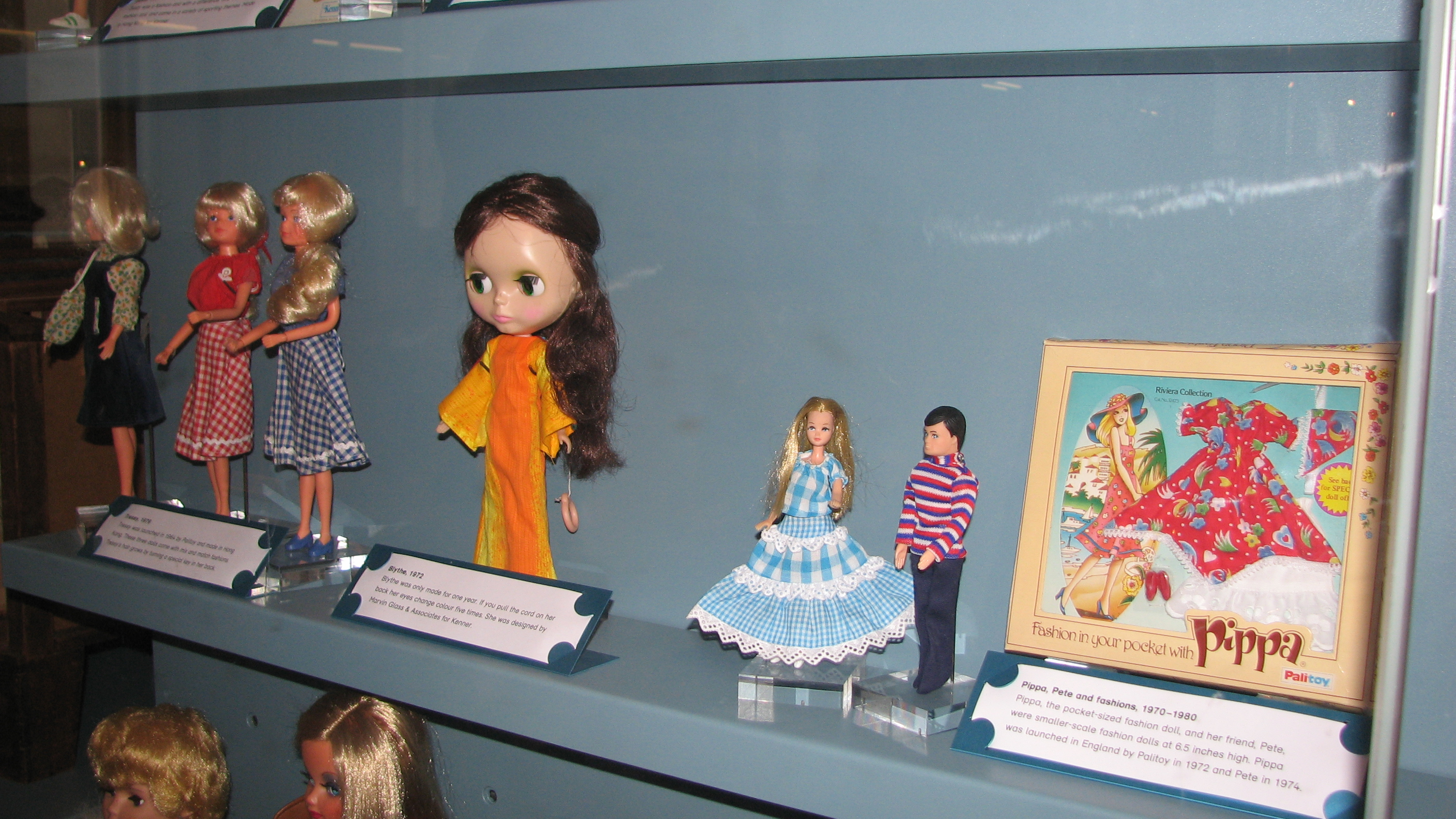 Childhood Museum - London - September 2008